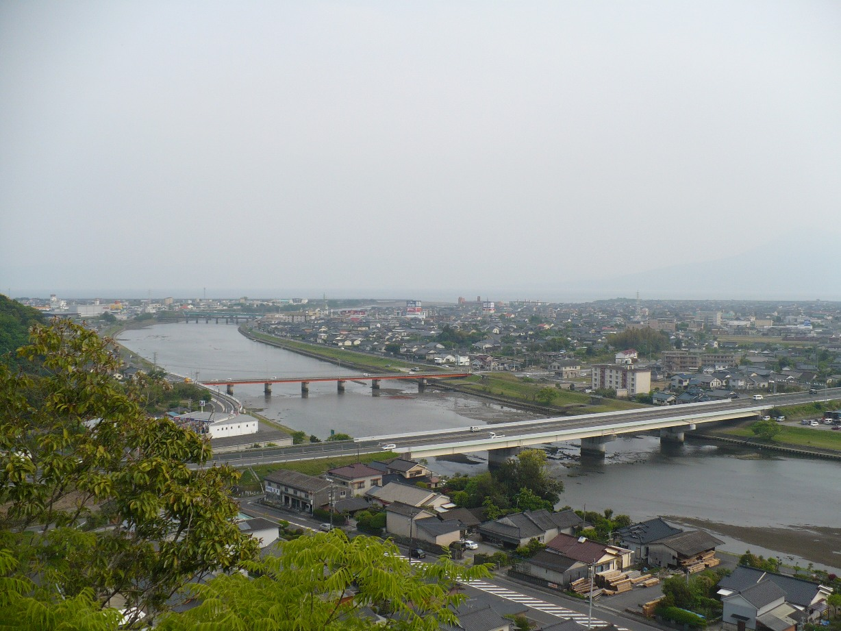 Beppu river seen from Yoneyamayakushi, Aira town Kagoshima Prefecture, Japan